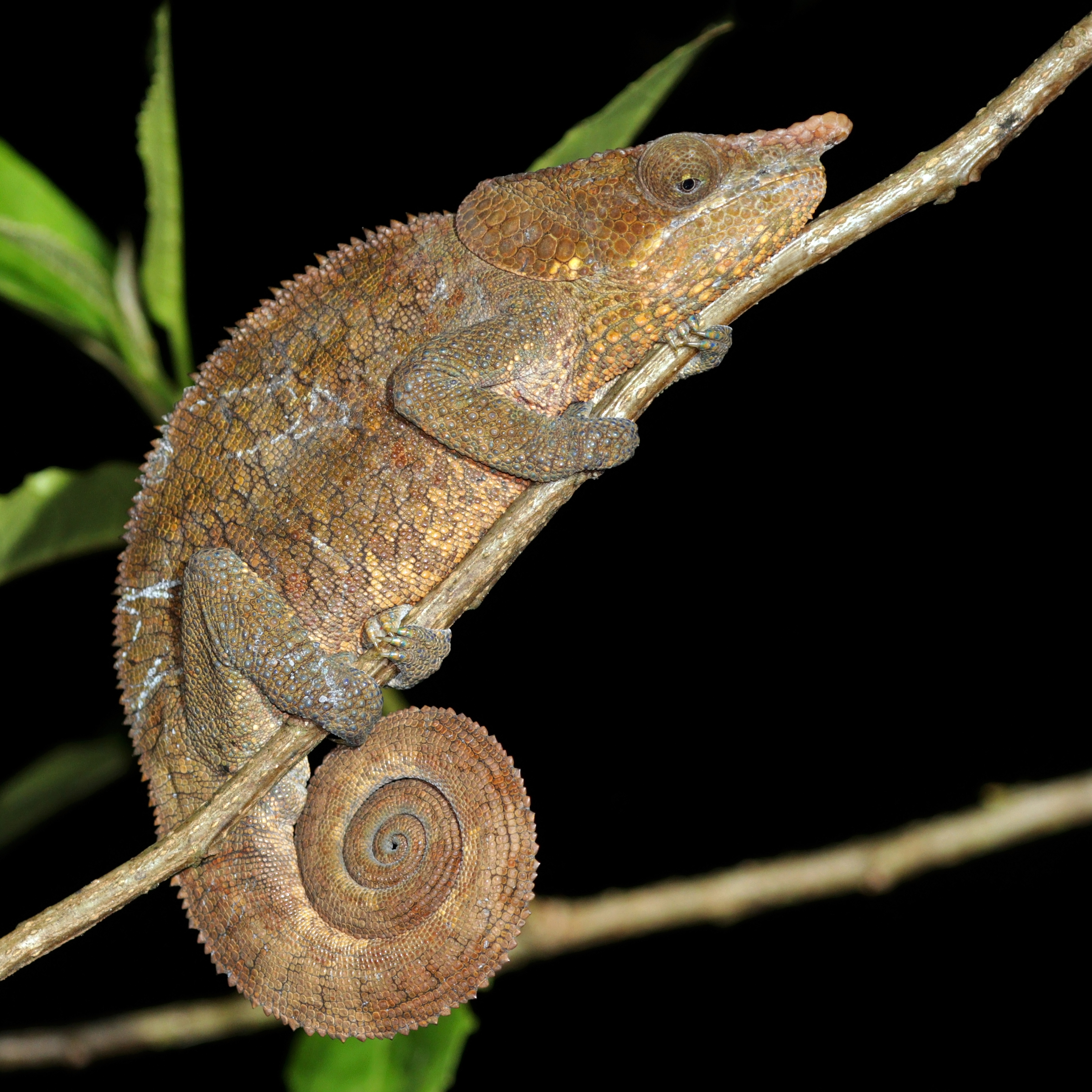 Blue-legged chameleon (Calumma crypticum) male, Ranomafana National Park, Madagascar